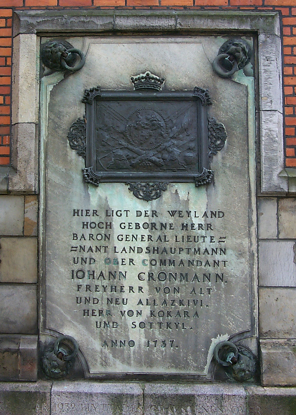 The grave stone of Johan Cronman who died 1737 in Malmo, Sweden. “ Hier ligt der weyland hoch geborne herr baron general lieute= nant landshauptmann und ober commandant IOHANN CRONMANN. Freyherr von alt und neu Allazkivi. Herr von Kokara und sottkyl. Anno 1737 ”